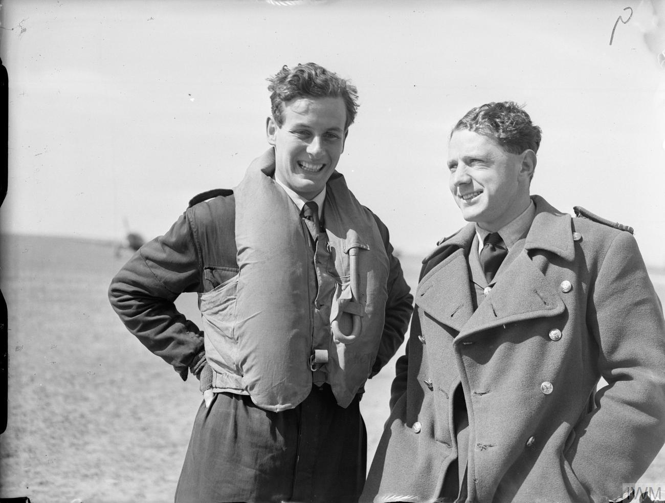 Royal Air Force Fighter Command, 1939-1945. Flight Lieutenants P W Townsend (left) and C B Hull of No. 43 Squadron RAF at Wick, Caithness, at the time they had shot down three enemy aircraft each. Hull became the commanding officer of the Squadron in September 1940 and was killed in action on 7 September having shot down at least 10 enemy aircraft. Townsend was to end his flying service with at least 11 victories, having commanded Nos. 85 and 605 Squadrons RAF. He then commanded RAF stations at Drem and West Malling, and No. 23 Initial Training Wing, before becoming Equerry of Honour to the King in March 1944.